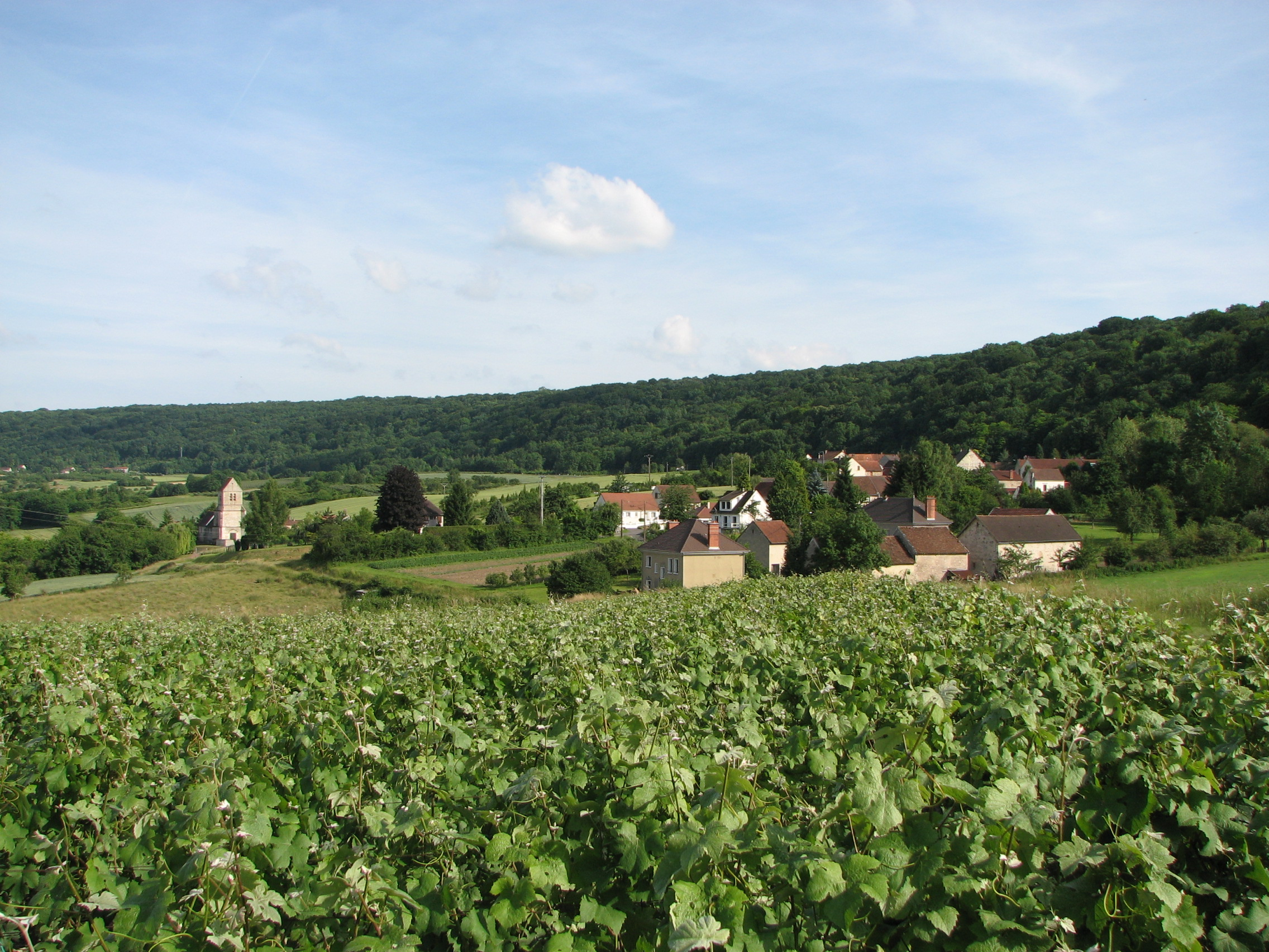 view of Reuilly village, Reuilly-Sauvigny in the departement of Aisne (France)